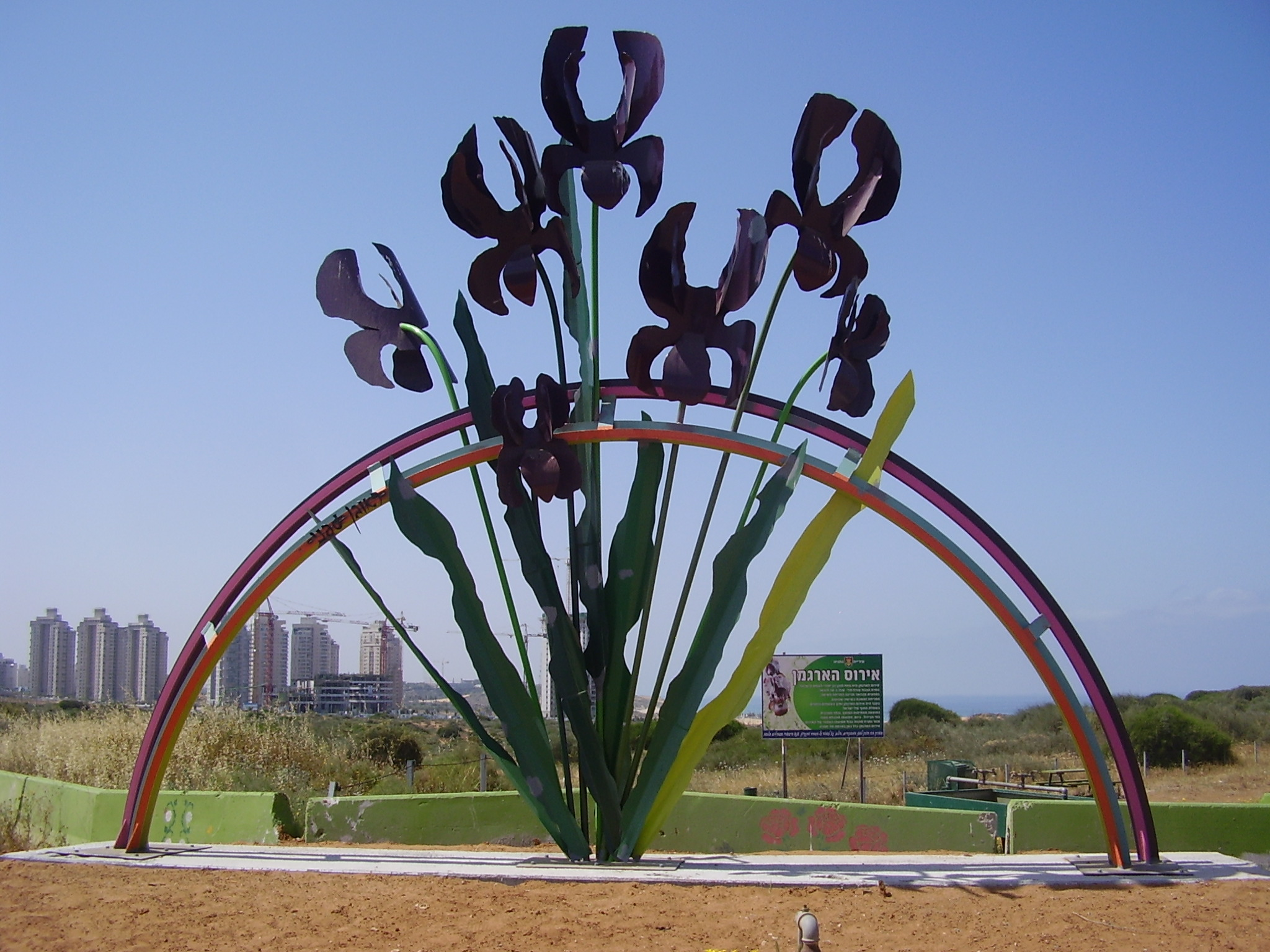 Iris nature reserve in Netanya